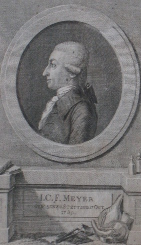 Portrait of Johann Carl Friedrich Meyer